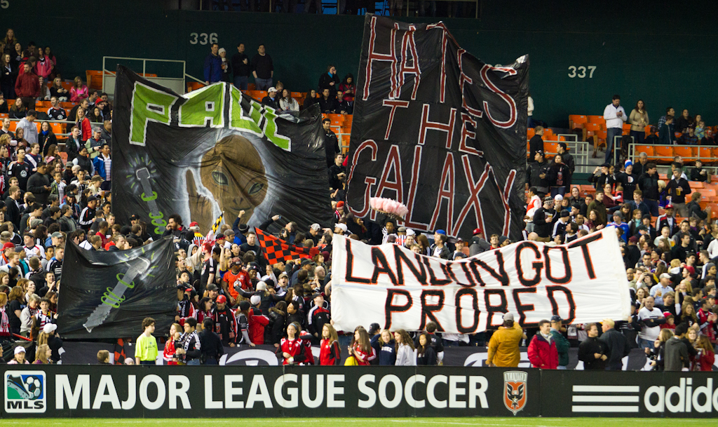 D.C. United supporter group, La Barra Brava display a tifo referencing the 2011 film Paul during a match against the L.A. Galaxy on April 9, 2011 at RFK Stadium in Washington, D.C..